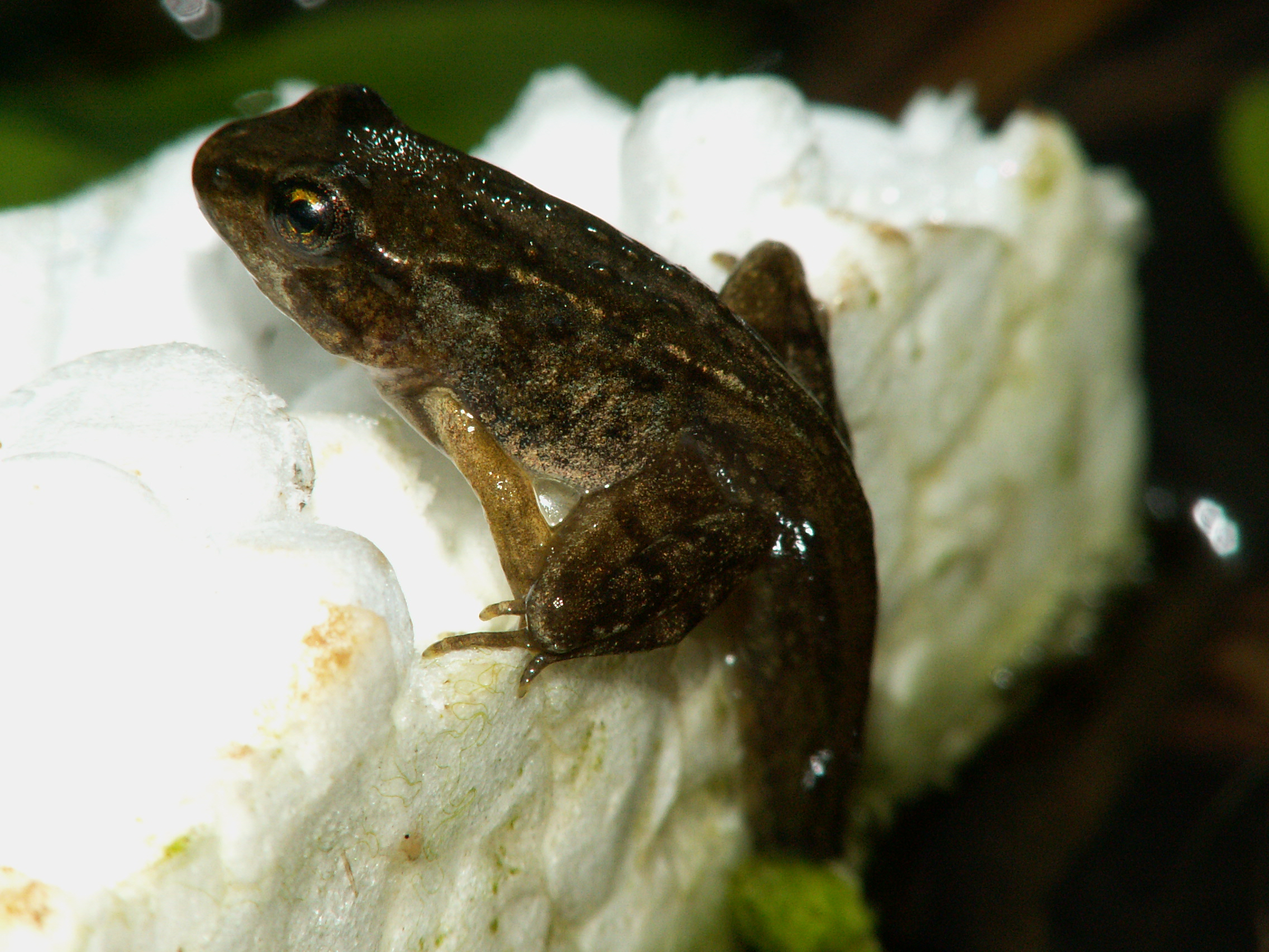 This young common frog (Rana temporaria has completed its metamorphosis to a carnivorous land animal, except for the resorption of the tail. Wageningen, the Netherlands